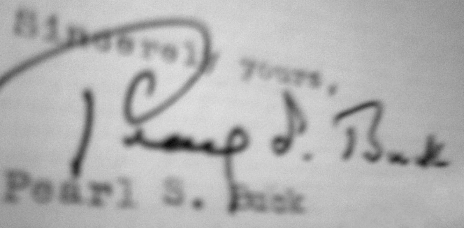 Autograph of Pearl S Buck